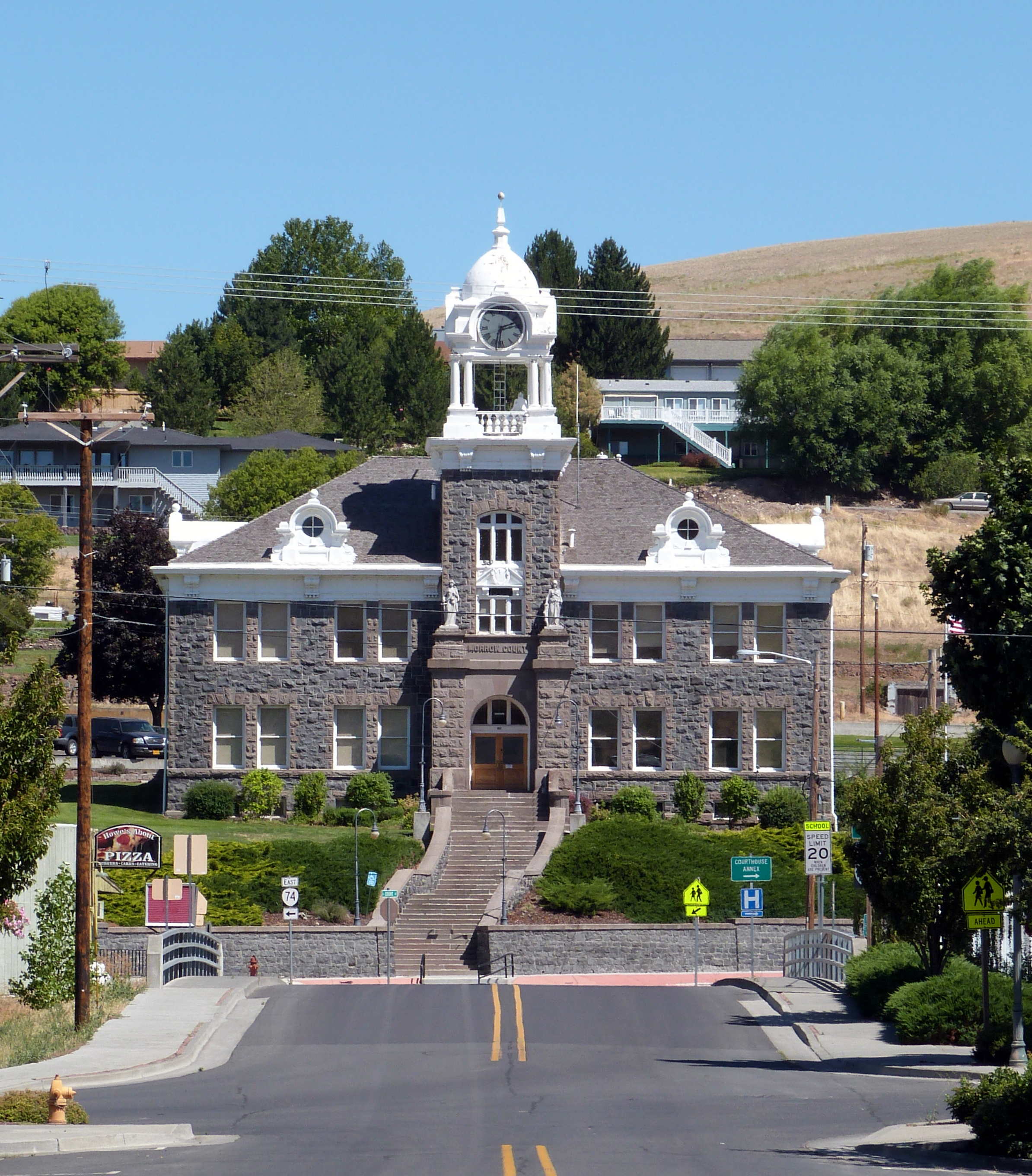 The Morrow County Courthouse in Heppner, Oregon, United States, is listed on the US National Register of Historic Places.